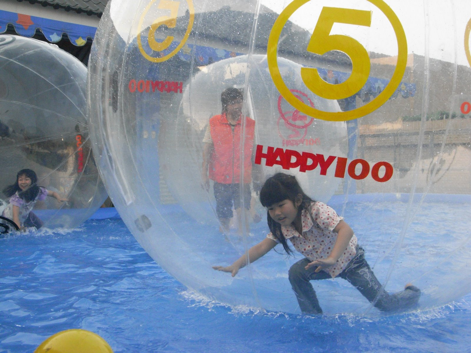 Kids attempt to stand inside inflatable floating balls. On top of Dream Mall in Kaohsiung, Taiwan.